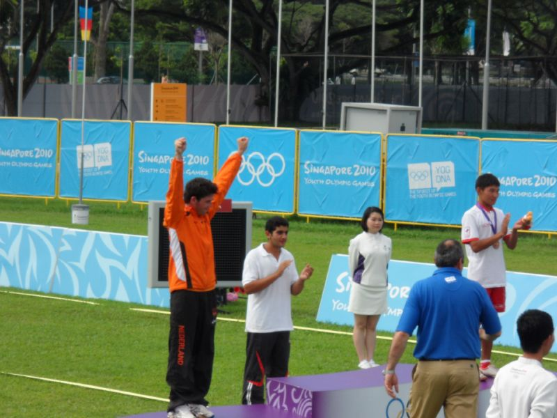 Dutch archer Rick van den Oever on the victory podium after winning the silver medal in the Junior Men's Individual archery competition at the 2010 Summer Youth Olympics taking place at Kallang Field, Singapore.